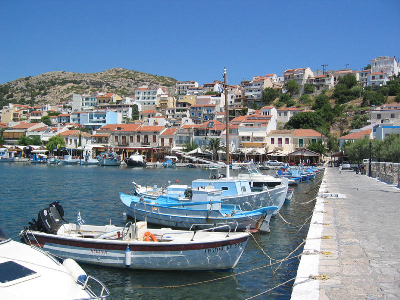 The town of Pythagorio, on the south-eastern side of the island. Photograph taken by Jeremy Lee, July 20th 2004